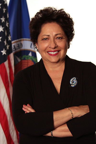 Katherine Archuleta former director of the US Office of Personnel Management